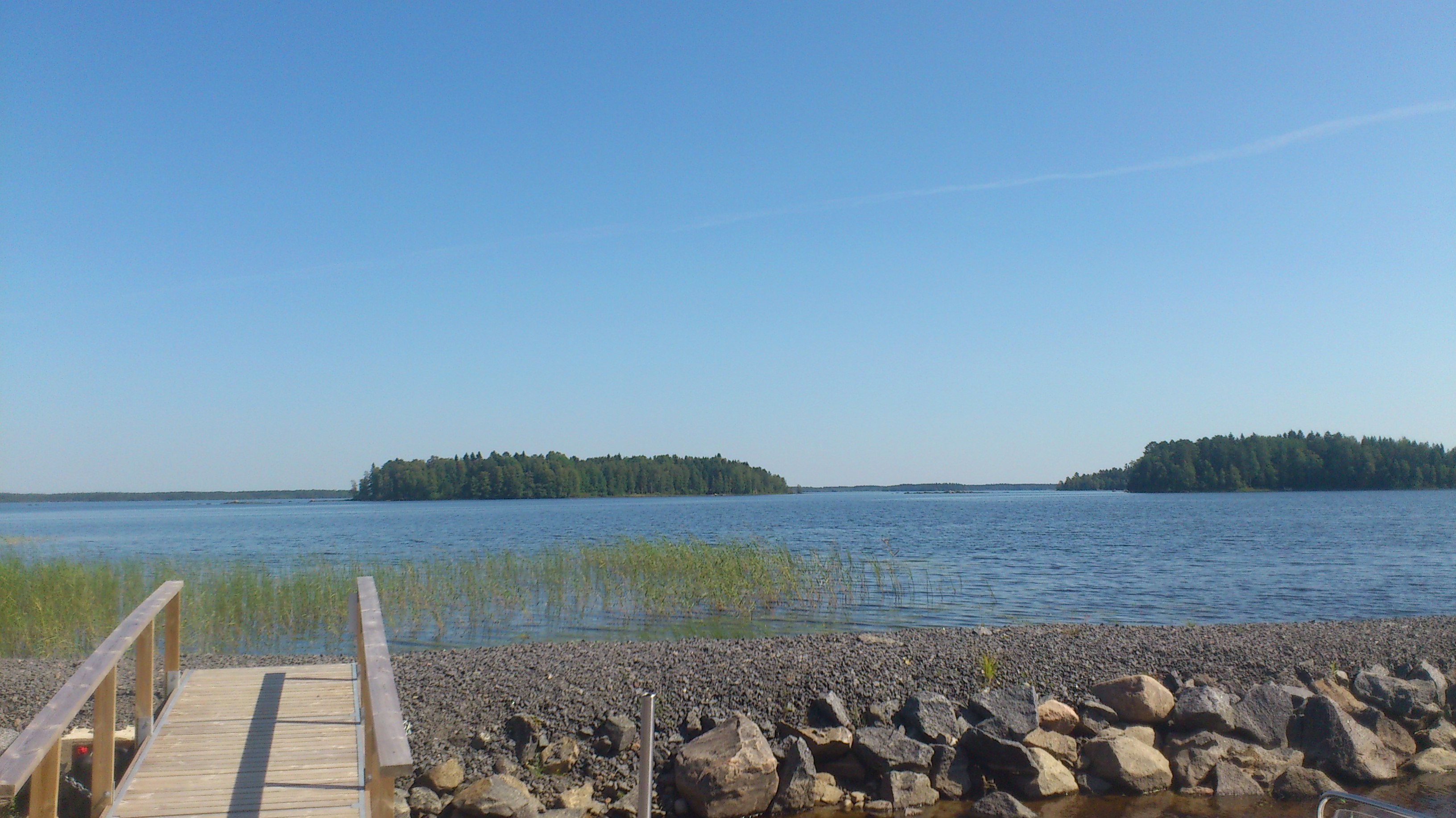 Picture about the lake Lestijärvi, Finland. Taken from the fishing harbor beside the center of the municipality of Lestijärvi.